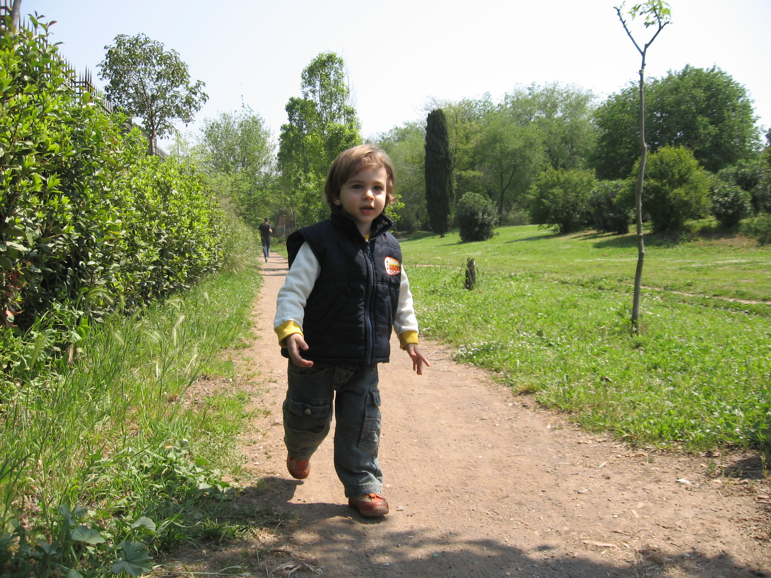 Boy toddler.